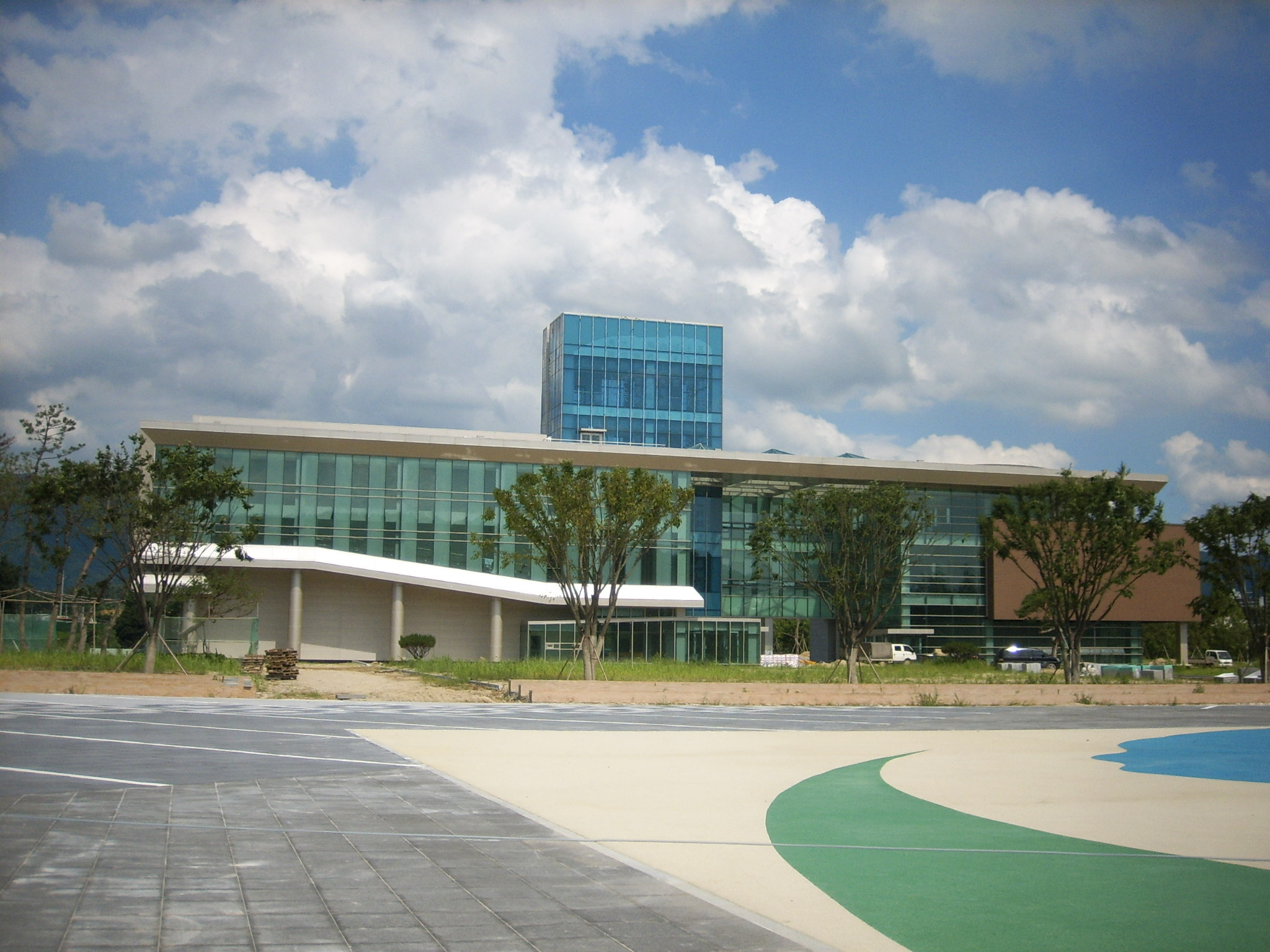 World Chungju Martial Arts Museum